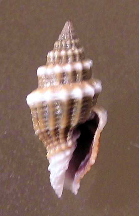 Vexillum mutabile, Reeve, 1845; a sea snail from the family Costellariidae; Philippines